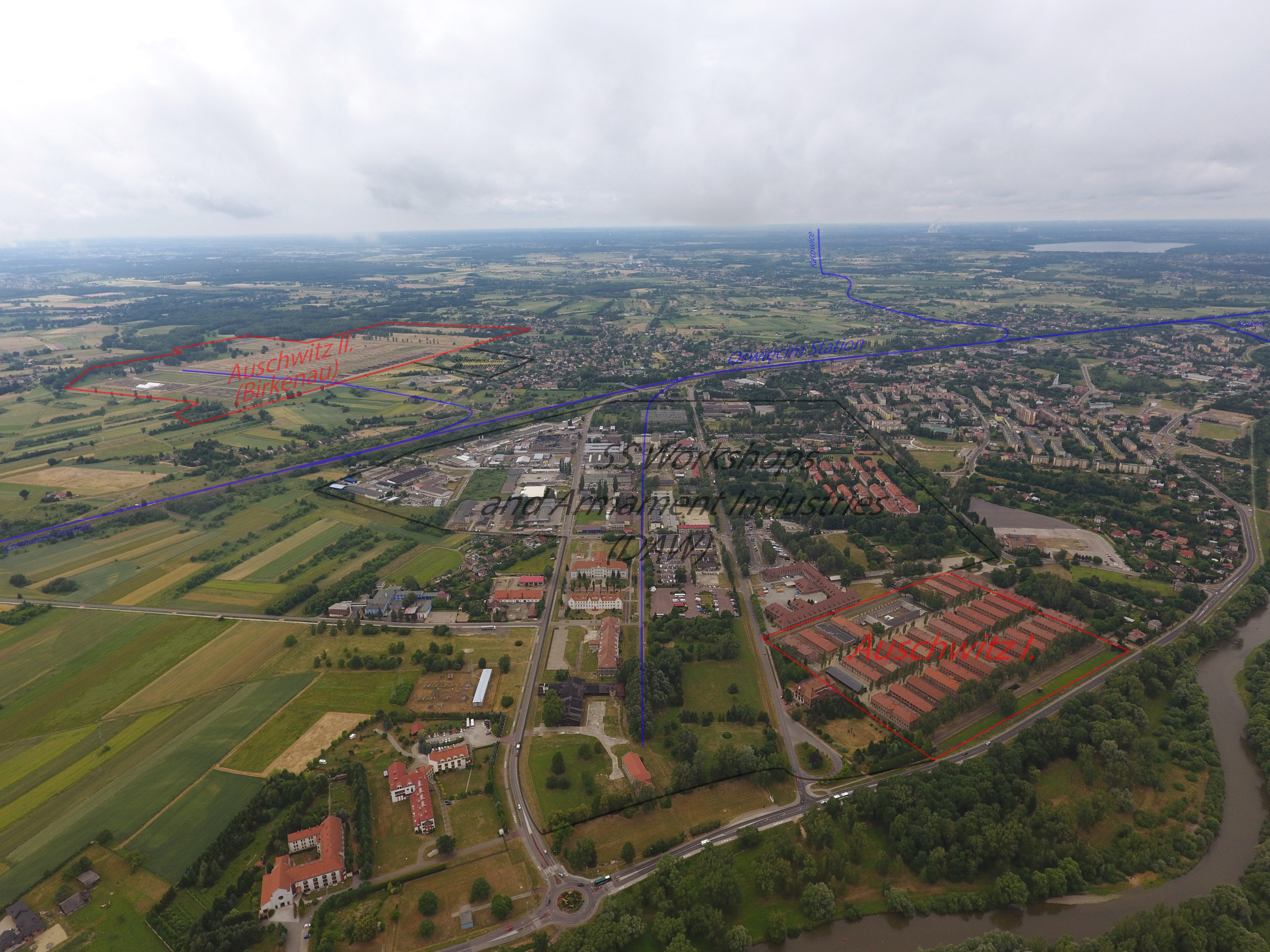 Oświęcim - Auschwitz concentration camp